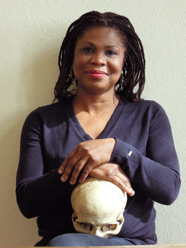 Photo of Haitian artist Sergine Andre for art review IntrinQuillite